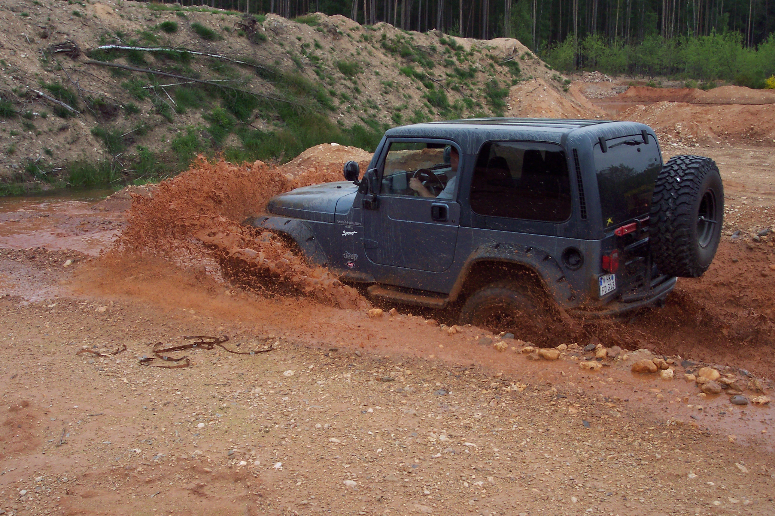 1998 Jeep TJ off roading near Grafenwoehr, Germany on 28 May 2008.